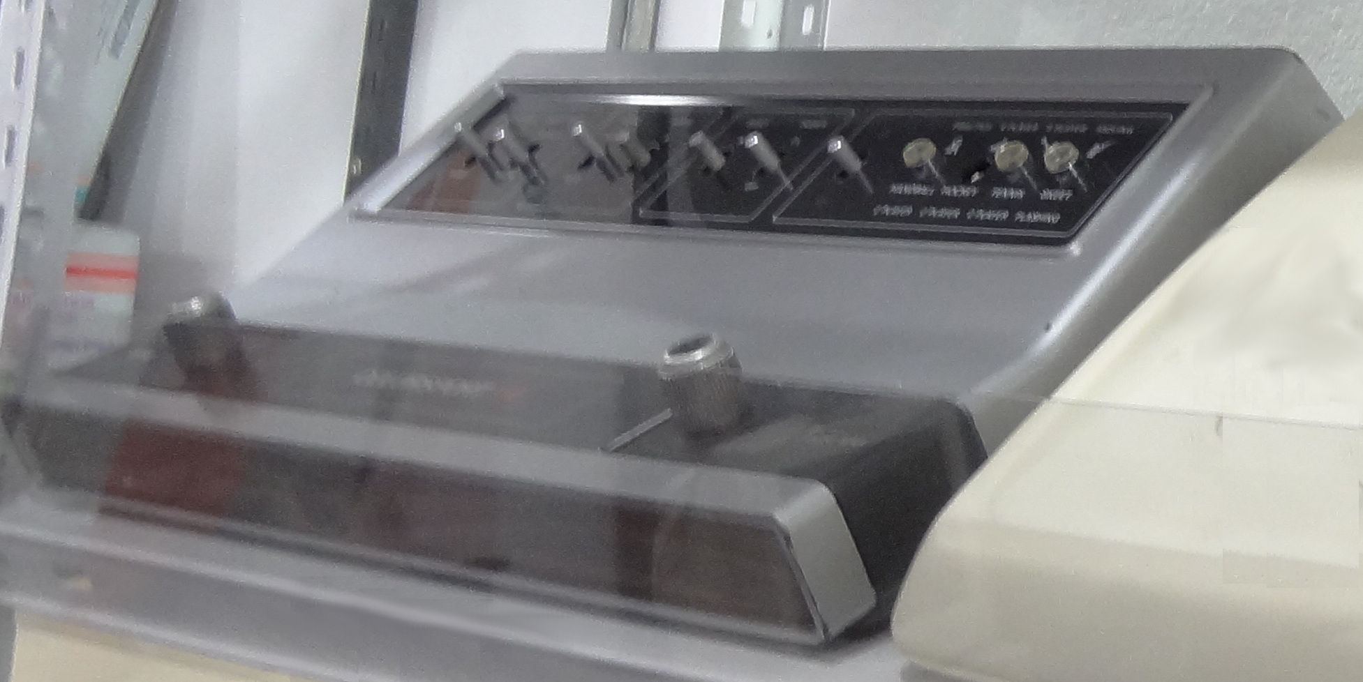 Granada Colosport VIII (CS1818). Pong console, 4 games with light gun. With MPS-7600-001 chip.